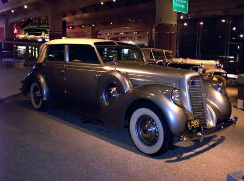 1937 Lincoln Model K Brunn Touring Cabriolet